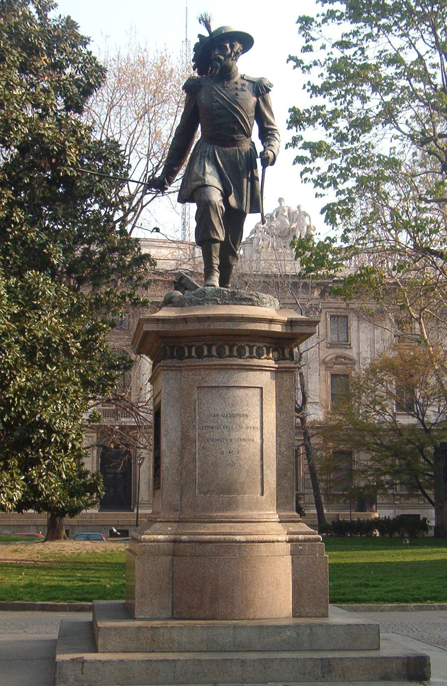 Giuseppe Cassano - Turin - Monument to Alessandro Lamarmora (1867). 1860s. Today. Today.